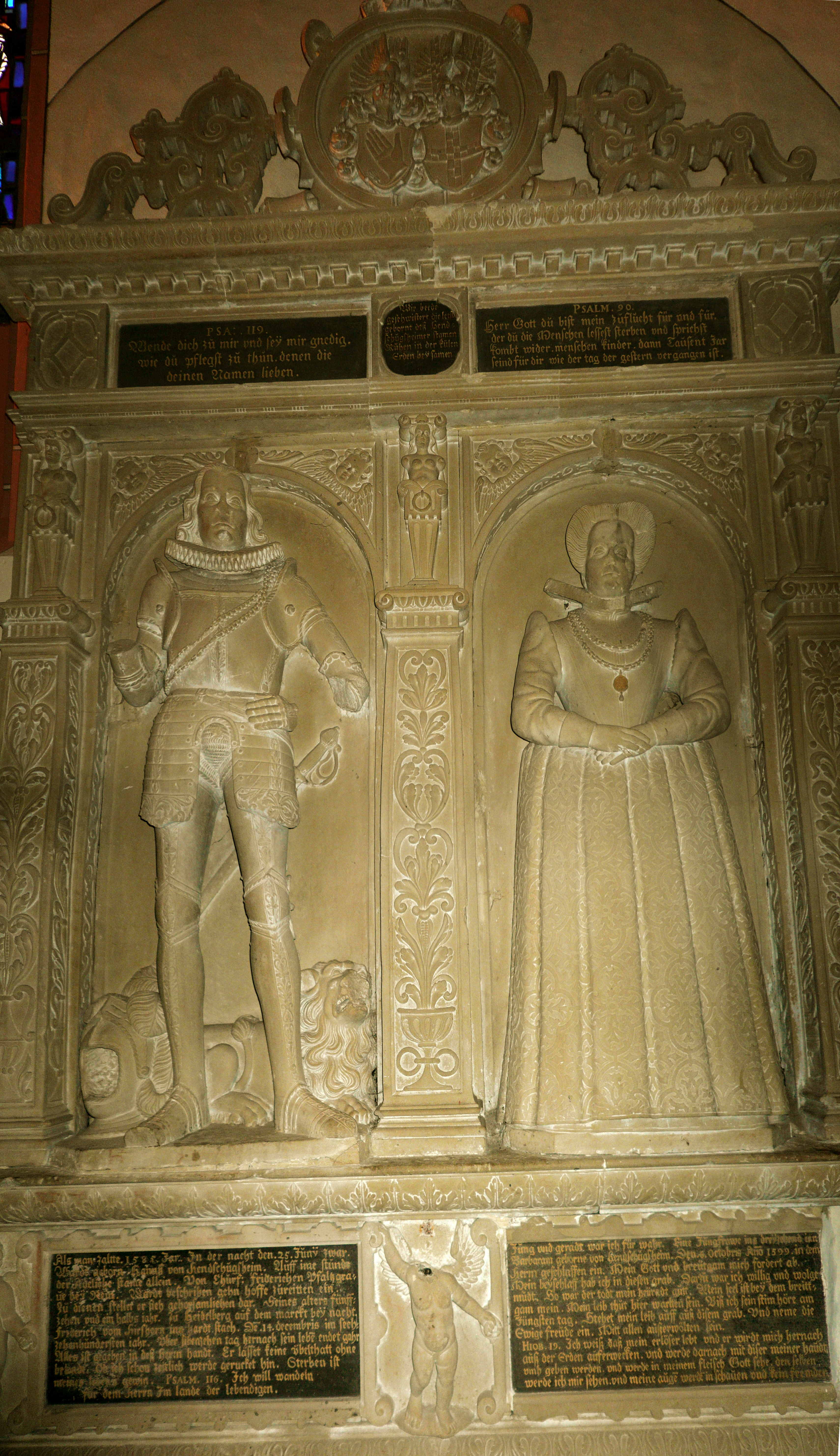 Tomb of Hans and Barbara von Handschuhsheim in church St Vitus at Heidelberg-Handschuhsheim